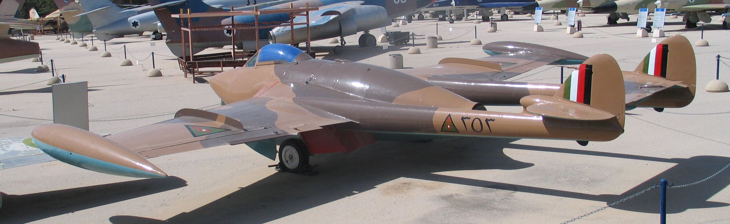 Description: De Havilland Venom at Muzeyon Heyl ha-Avir, Hatzerim airbase, Israel. 2006. Source: Photo by me, User:Bukvoed.